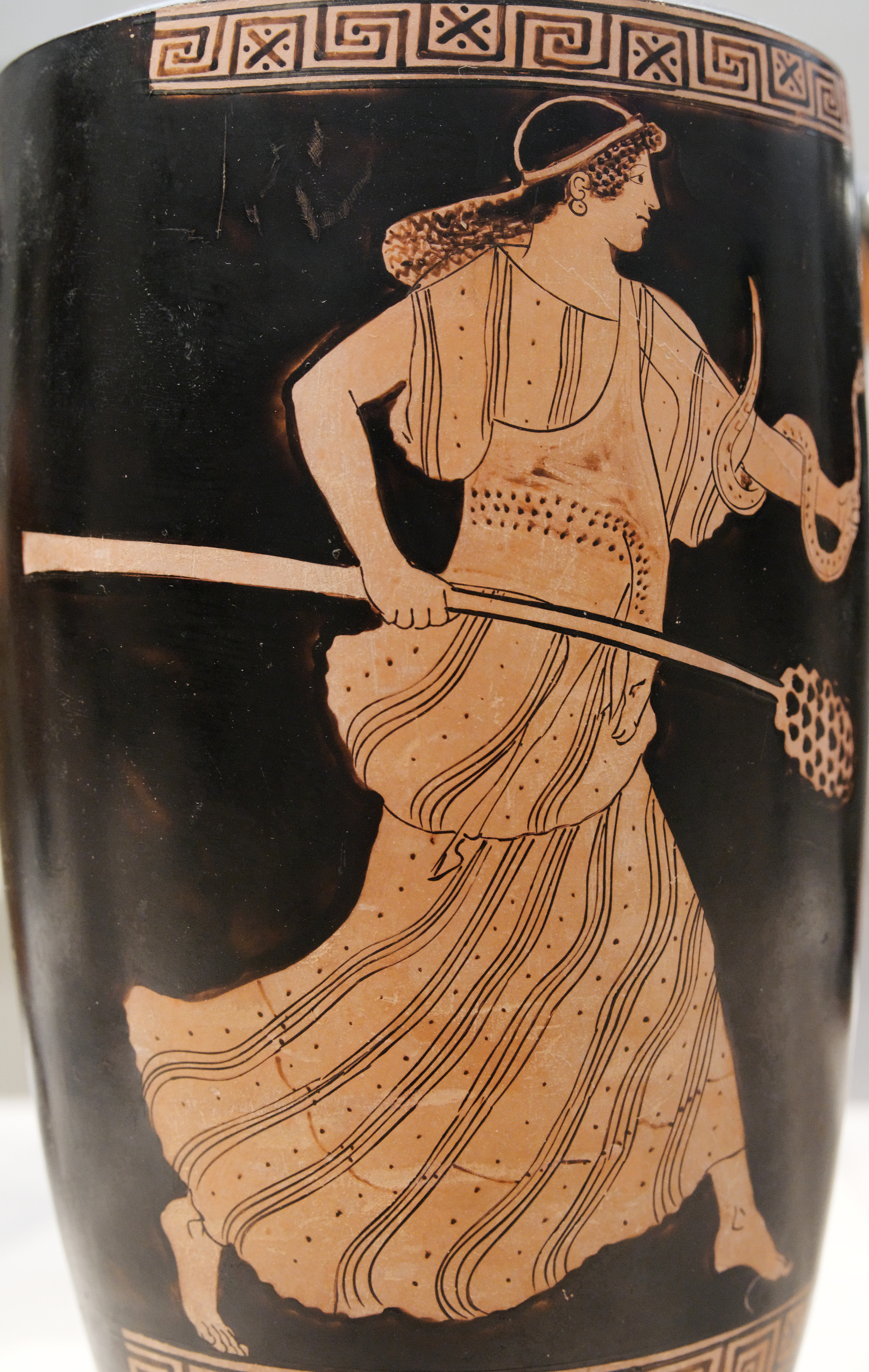 Maenad holding a thyrsos and a snake, Attic red-figure lekythos.